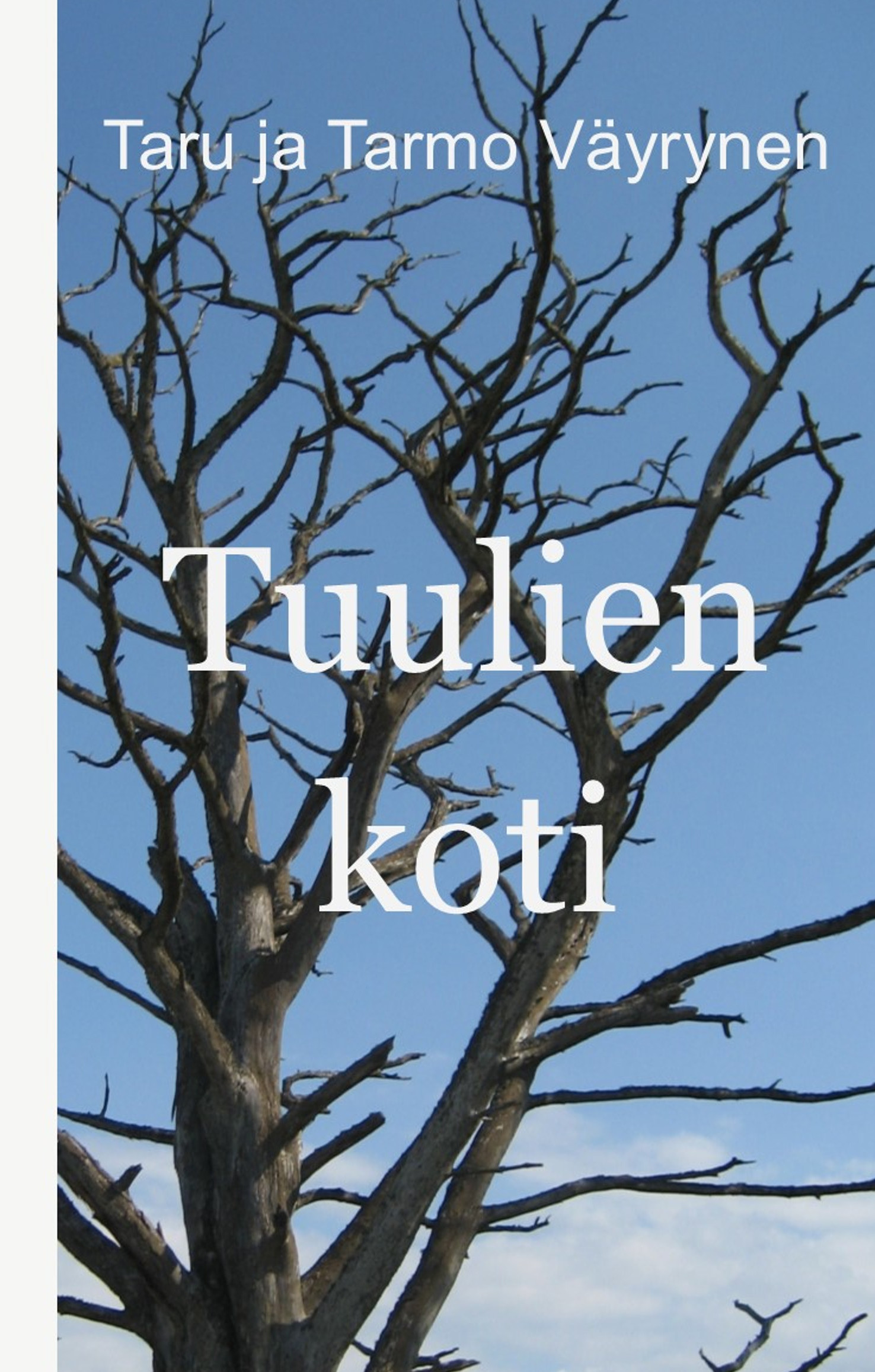 Tuulien koti